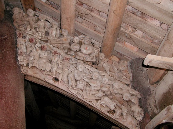 The carved roof of Thổ Tang communal house, Thổ Tang town, Vĩnh Tường district, Vĩnh Phúc province, Vietnam.